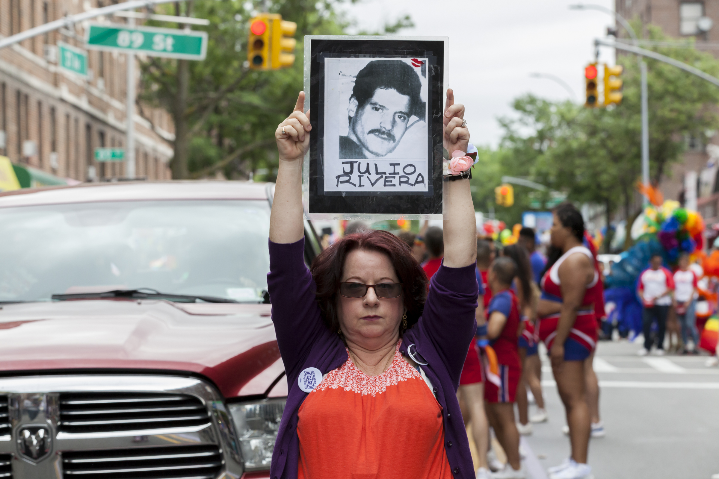 Photos taken for the La Guardia and Wagner Archives at the Queens Pride Parade in Queens on Sunday, June 3, 2018. Photographer: Luisa Madrid.